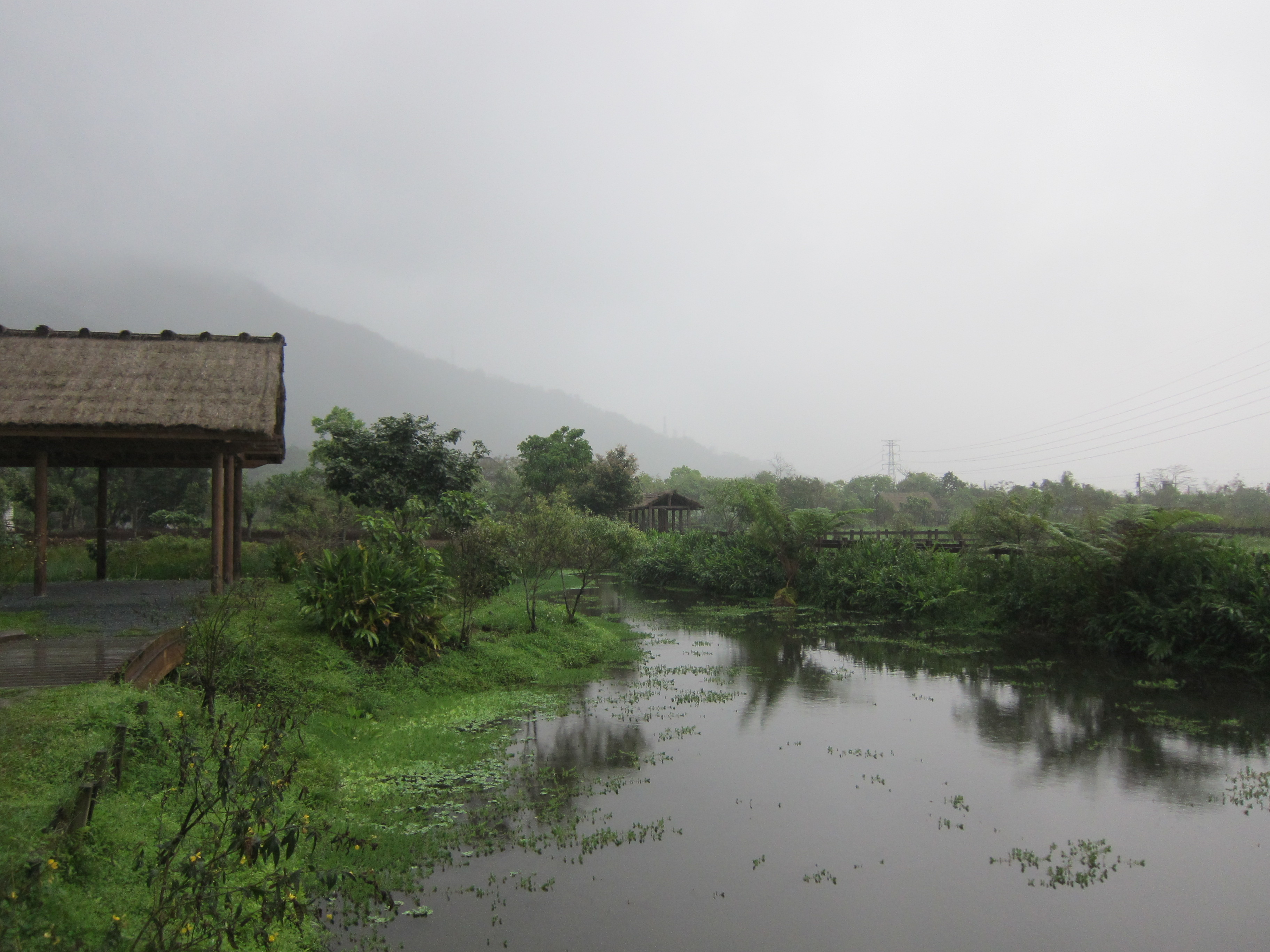 Fataan Wetland in Guangfu, Hualian, Taiwan